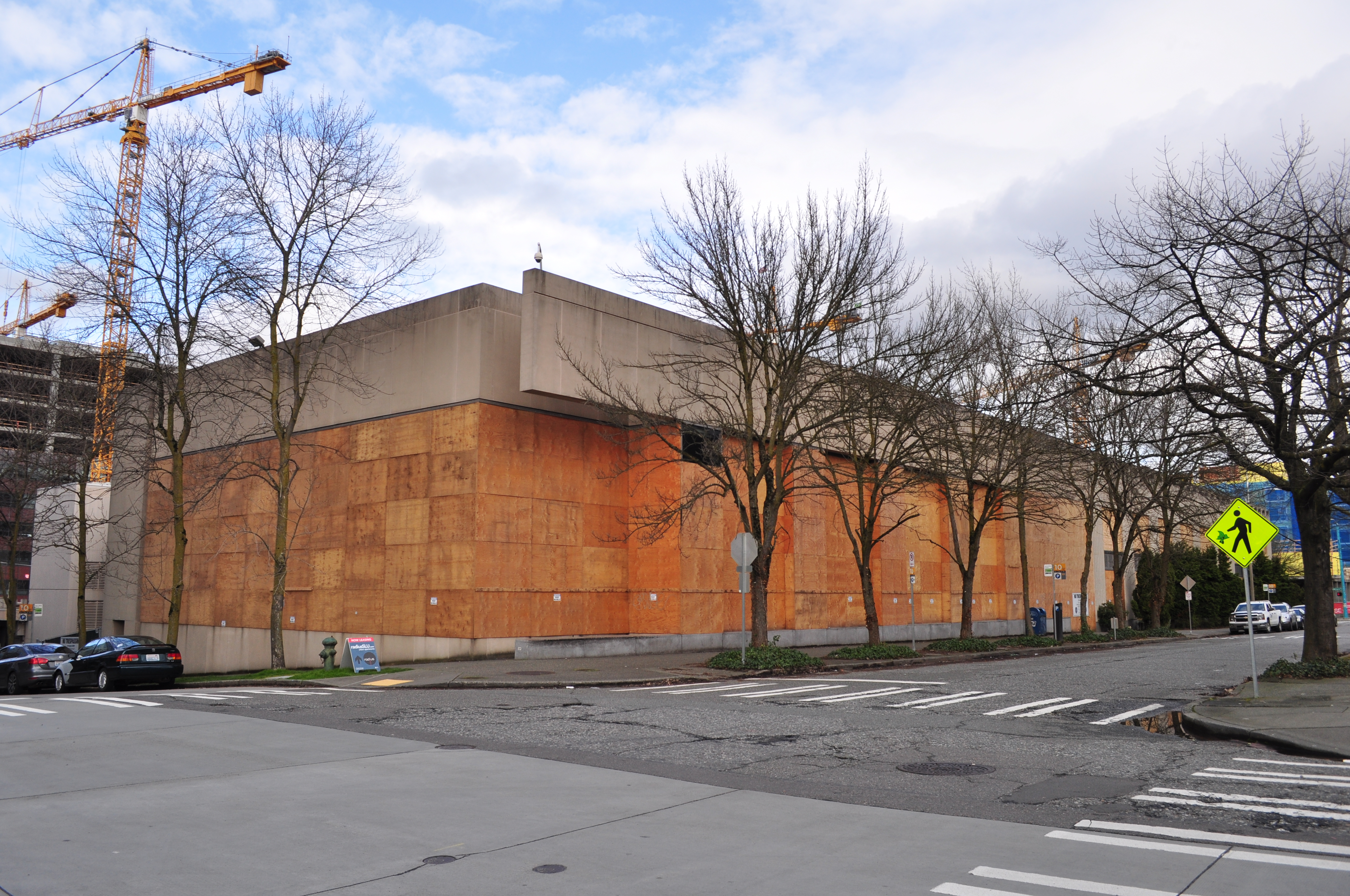 The Seattle Times Building, 1120 John St. (John St. between Boren Ave. N. and Fairview Ave. N., seen here from the Boren Ave. corner) in the South Lake Union neighborhood of Seattle, Washington, USA. The building is an official Seattle landmark, but has been allowed to deteriorate seriously.